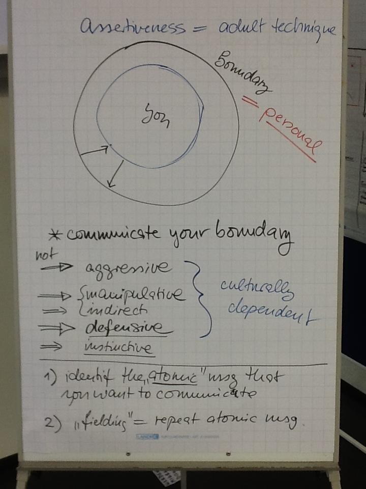 BSEL Summer School 2013 - Assertiveness and Negative Types (Day 3)